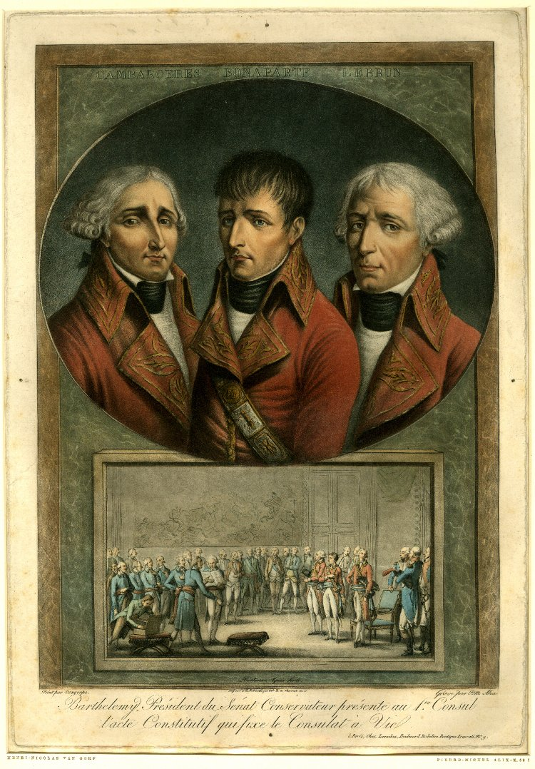 Cambacérès, Bonaparte, Lebrun